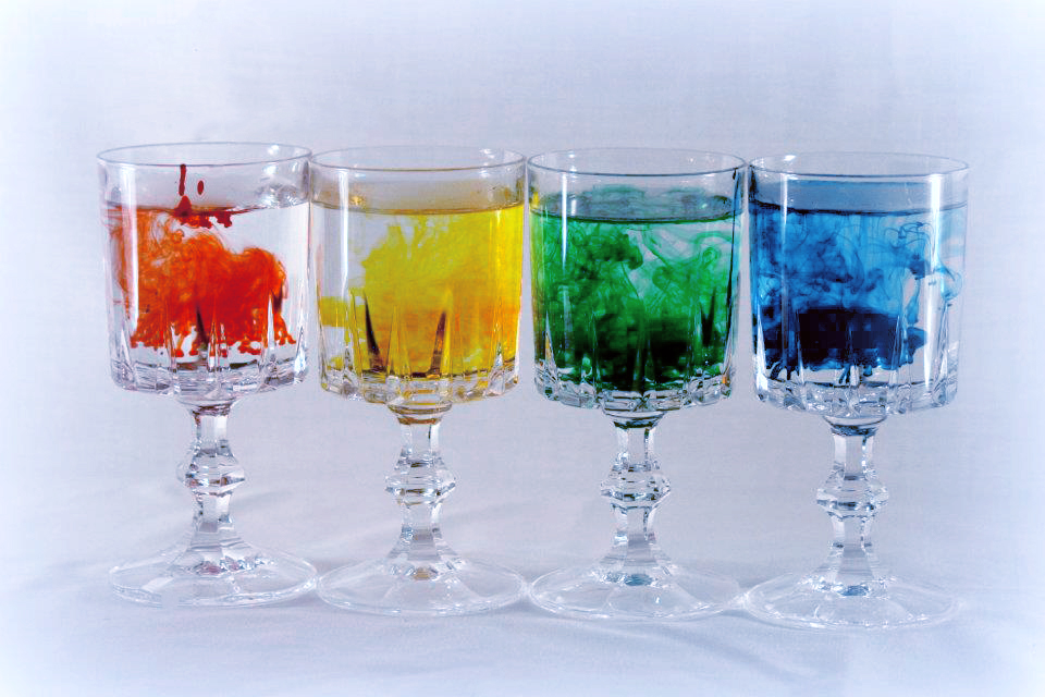 Dyes of different colors in glasses of water.